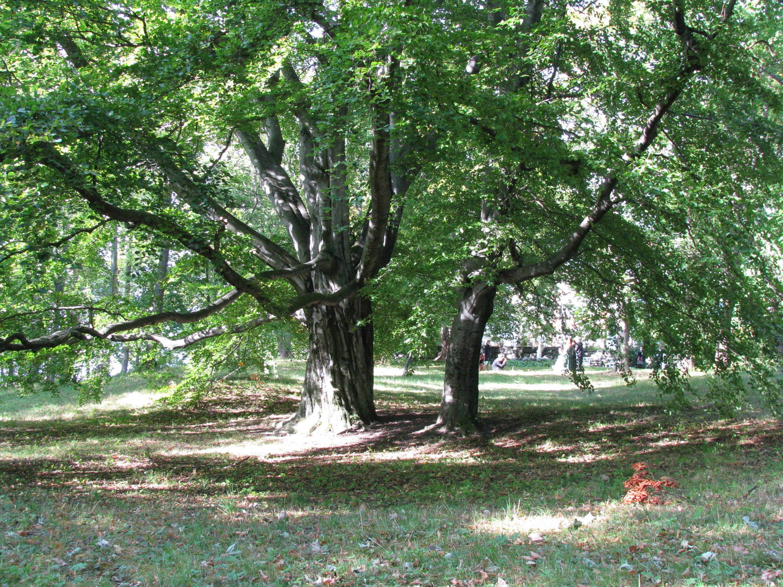 The largest tree is the 200 - year old Ringve Beech (Fagus Sylvatica) in Ringve Botanical Garden, Trondheim, Norway. Situated more than 63 degrees North, this tree has a circumference of 4.35 m at chest height. European beech is not native to Trondheim, but is commonly planted in parks and private gardens.